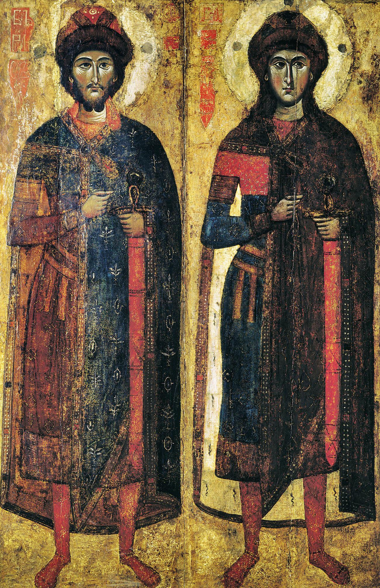 One of the oldest icons of Sts. Boris and Gleb in existance, found in Novgorod but likely painted in Tver in the early 1300s if not earlier